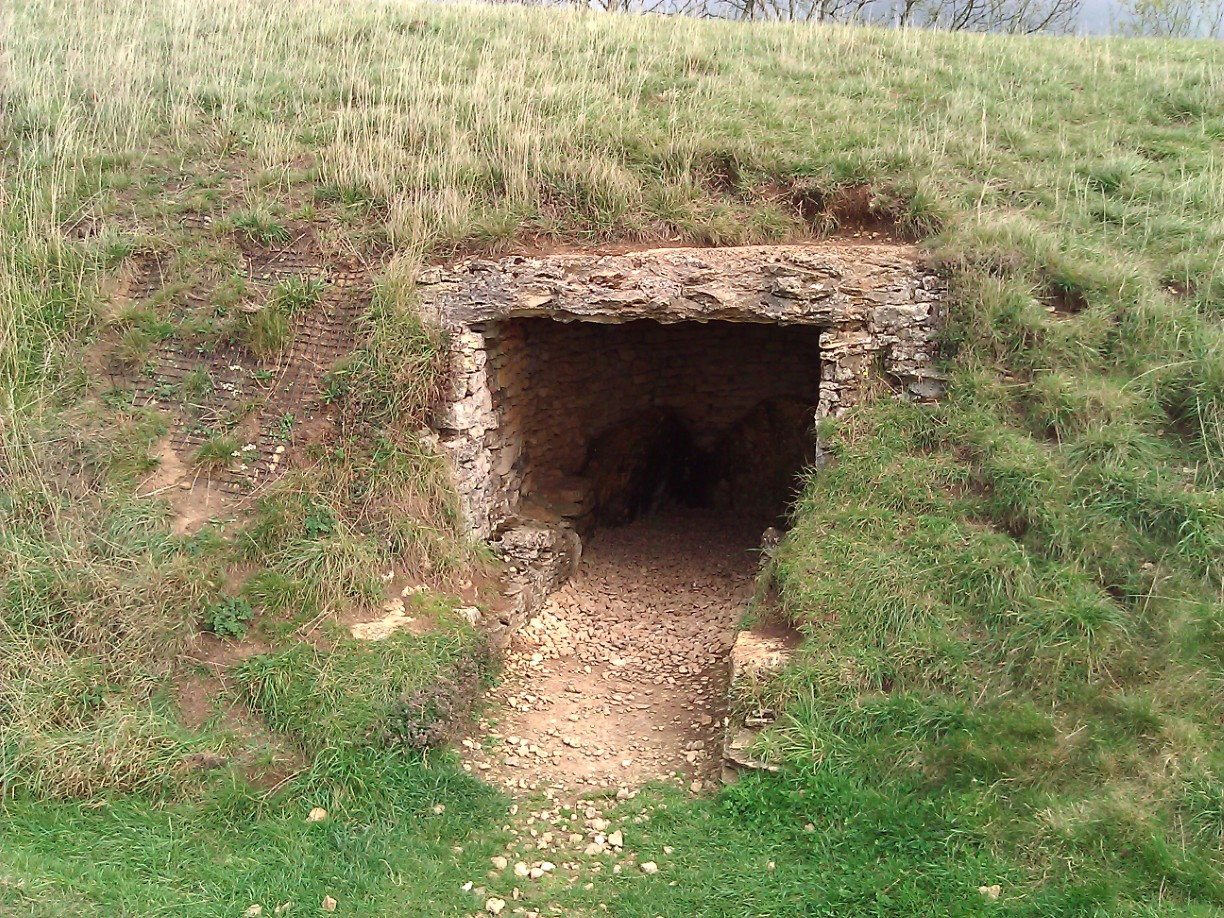 Belas Knap is a neolithic chambered long barrow, situated on Cleeve Hill, near Cheltenham and Winchcombe, in Gloucestershire, England. This image shows 2 of 3 excavated burial chambers